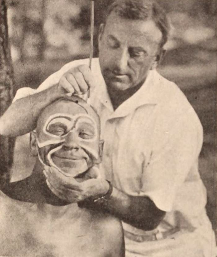 Still from the production of the American drama film The Last of the Mohicans (1920) with director Maurice Tourneur checking the makeup on Wallace Beery, on page 78 of the February 19, 1921 Exhibitors Herald.